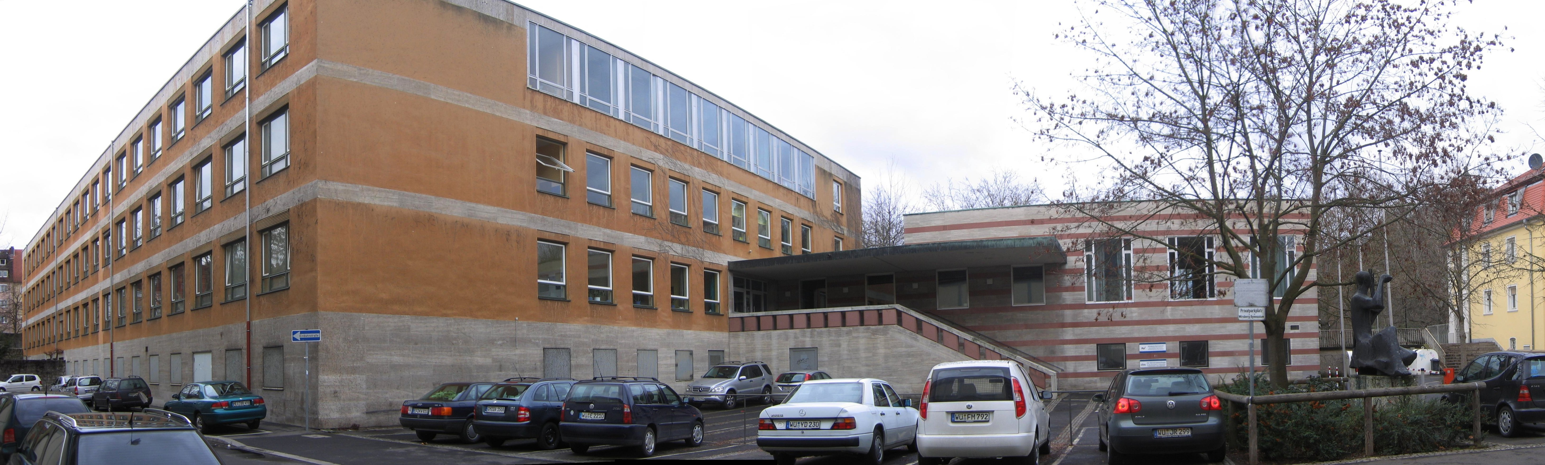 panorama view of the main building of the Wirsberg-Gymnasium Würzburg